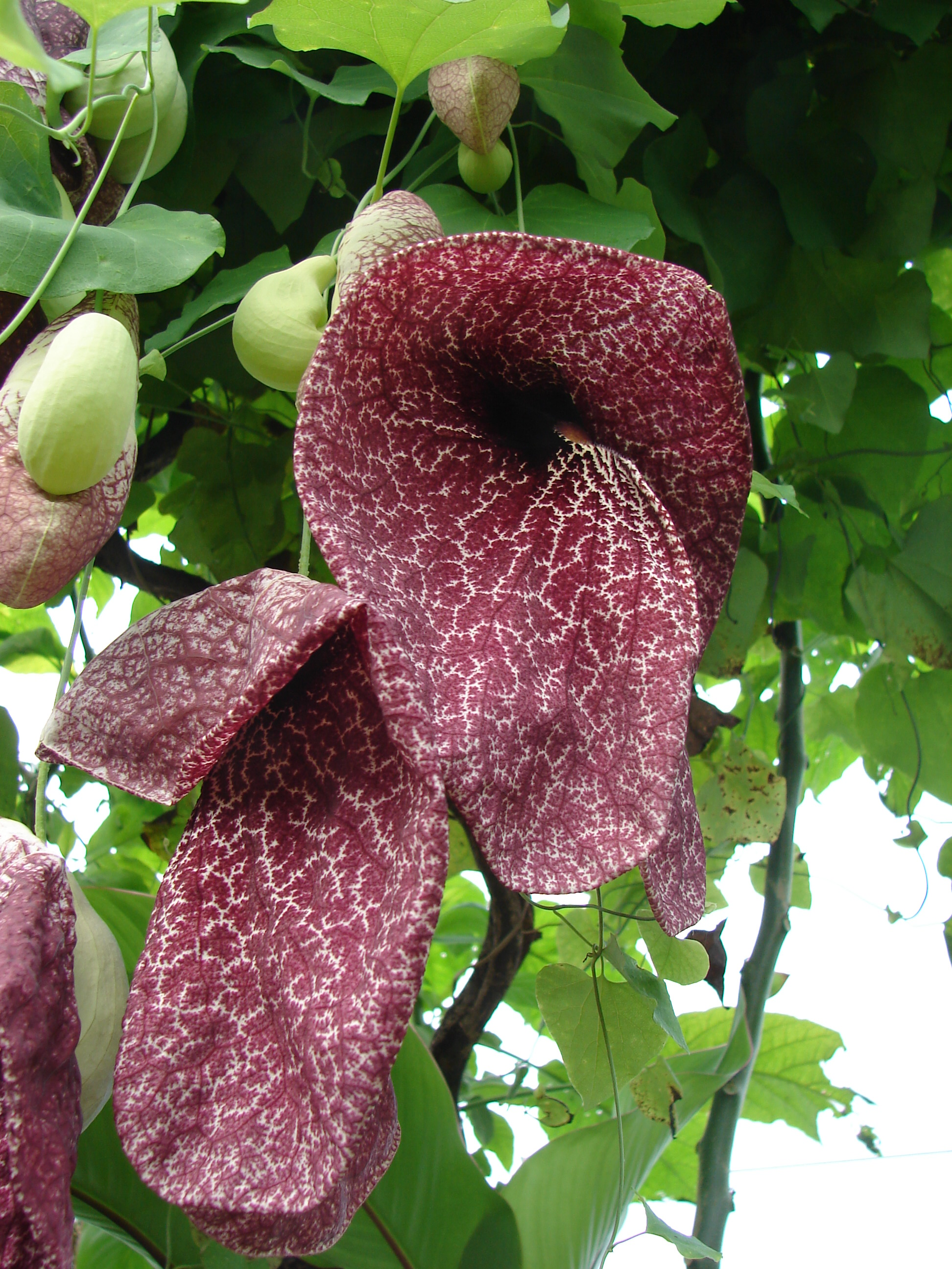 Images from London Zoo. Location: NW1 4RY